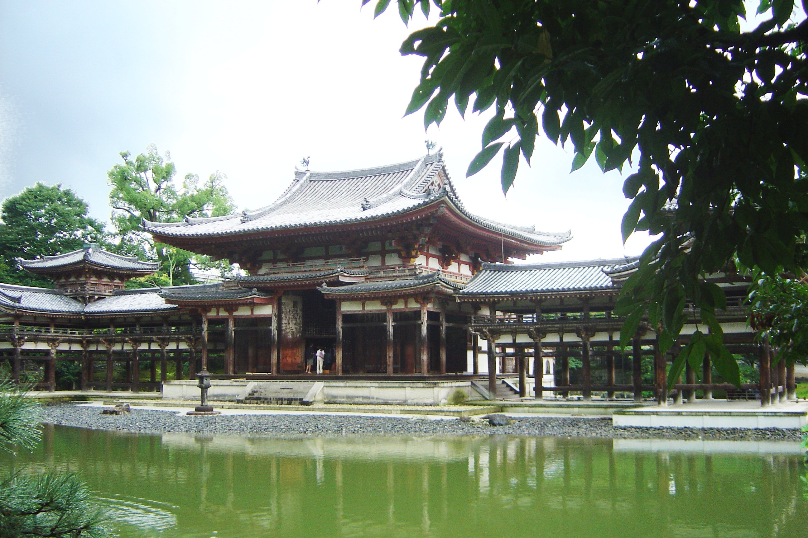 the Phoenix Hall at Byodoin in Uji, Japan